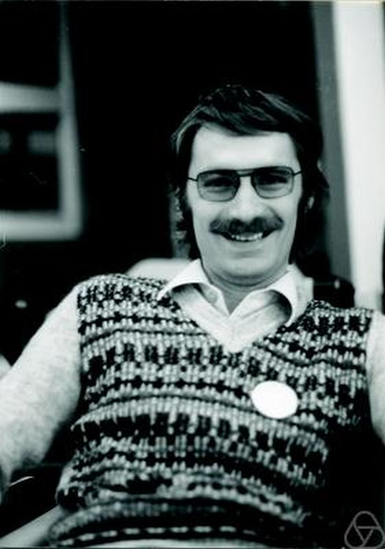 Karl Sigmund, Rennes 1975